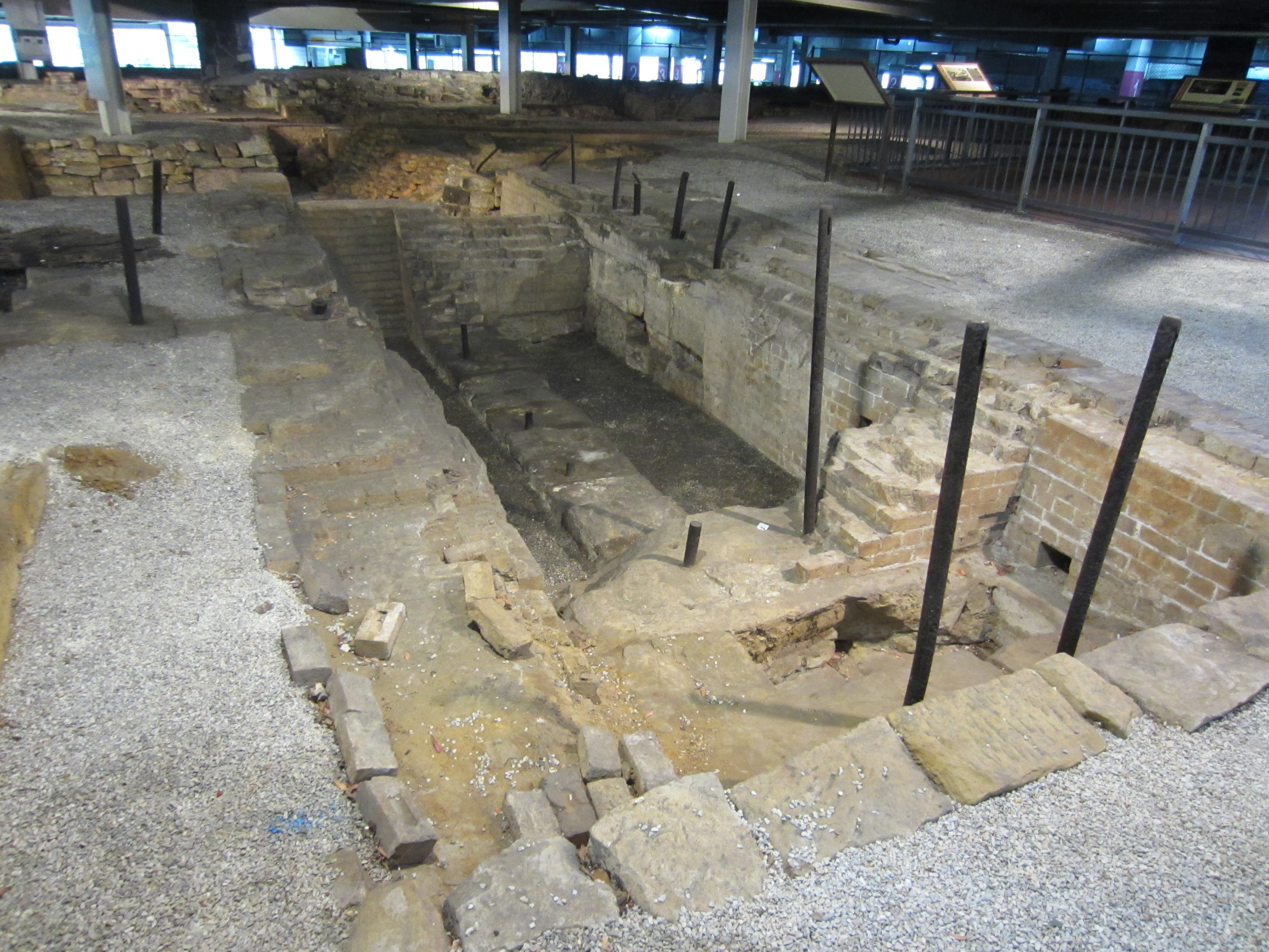 The remanants of the Fitzroy Iron Works in the carpark of the Highlands Marketplace (Woolworths) shopping mall in Mittagong NSW.